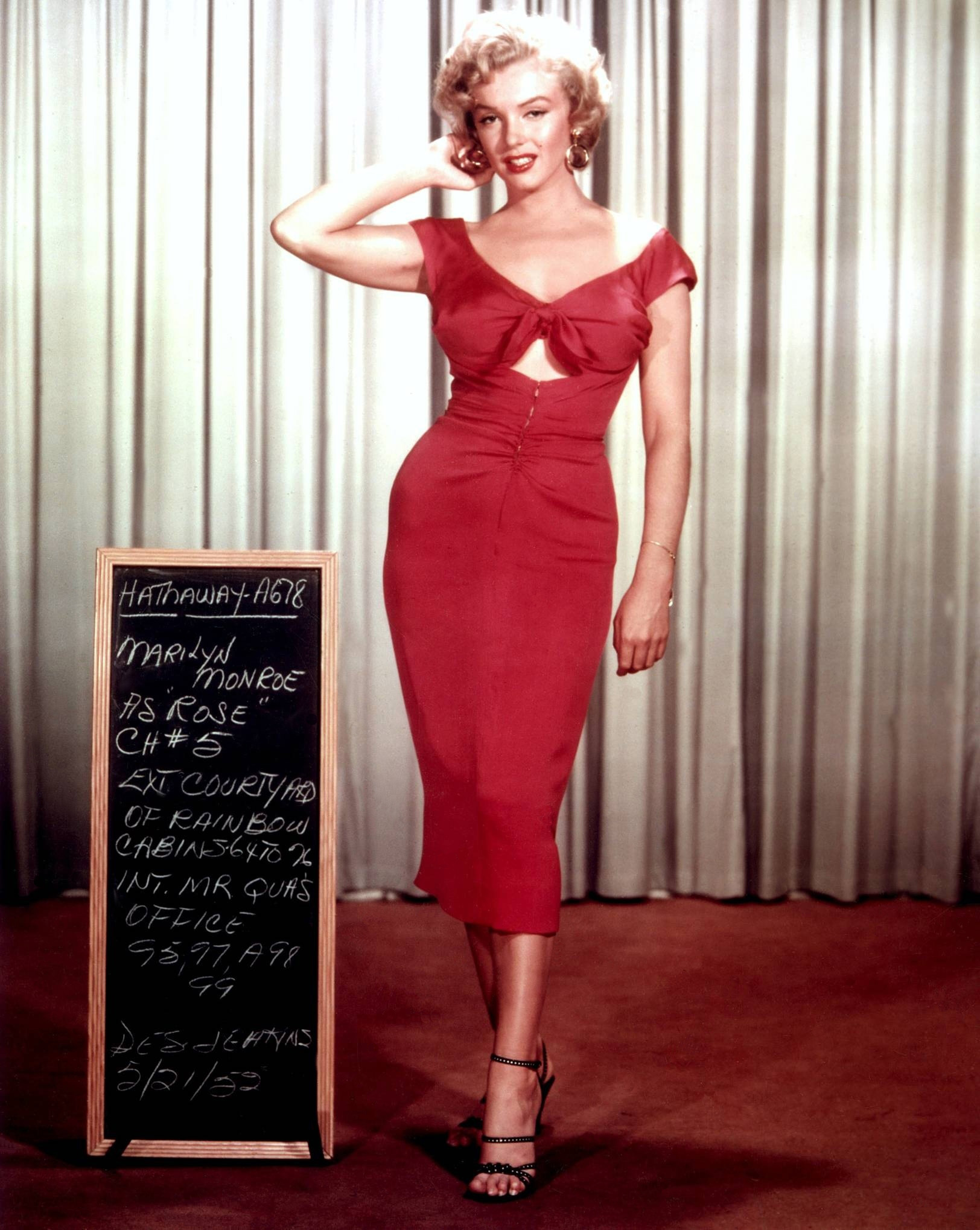 Studio publicity portrait for film Niagara (1953).